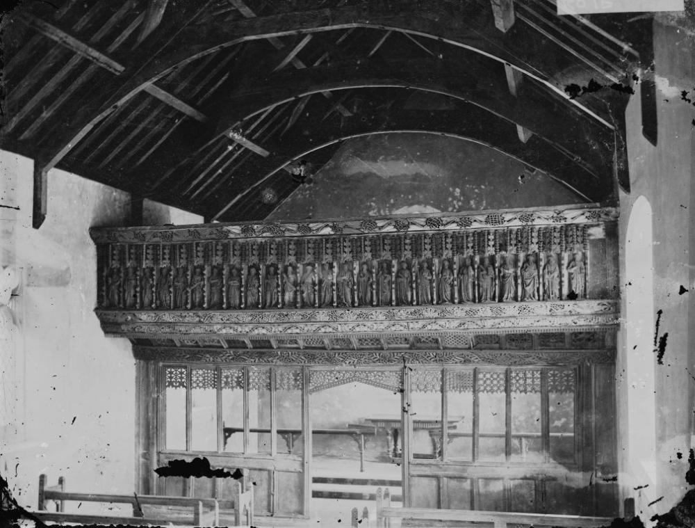 Abstract: [The screen at St. Anno church, Llananno.